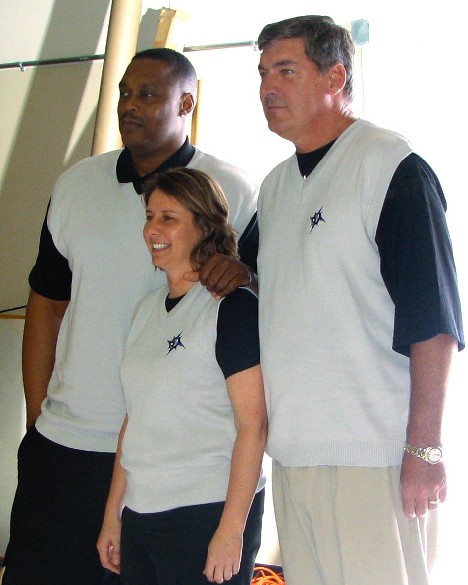 Detroit Shock coaching staff (left to right): assistant coach Rick Mahorn, assistant coach Cheryl Reeve, head coach Bill Laimbeer.